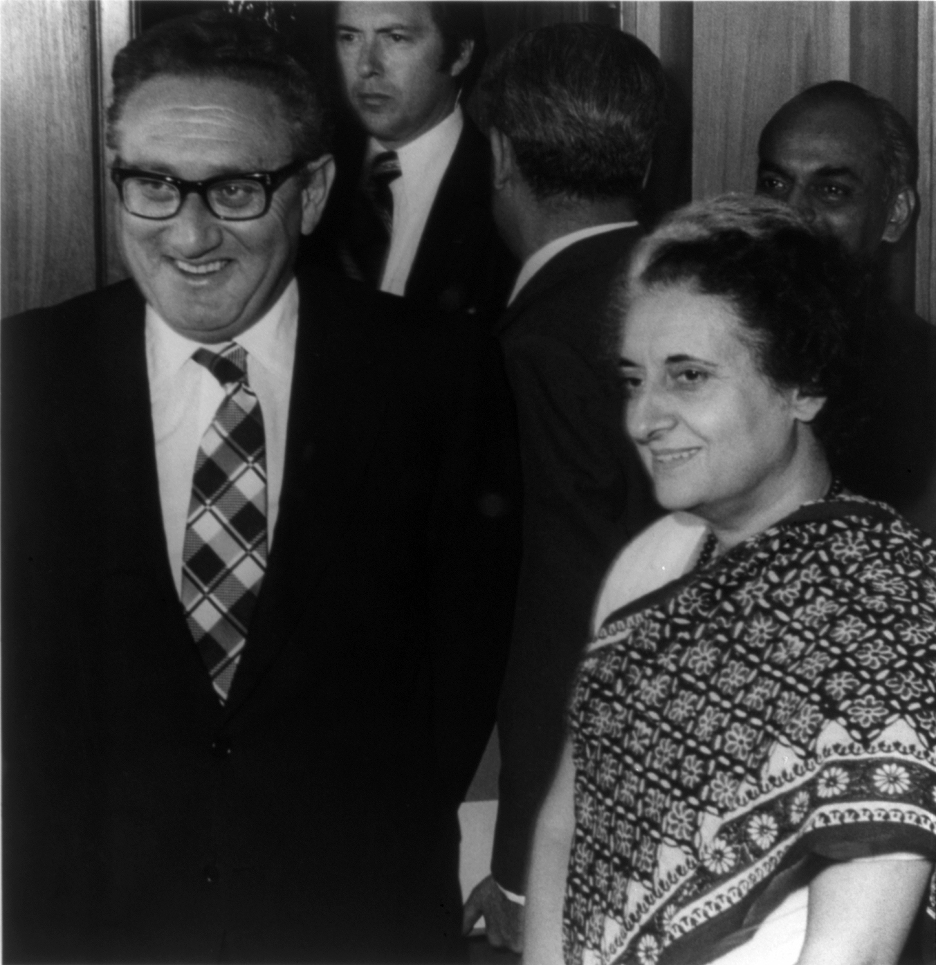 U.S. Secretary of State Henry Kissinger with Indian Prime Minister Indira Gandhi